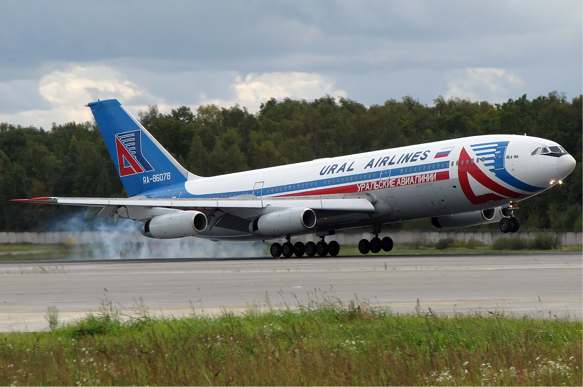 Ural Airlines Ilyushin Il-86